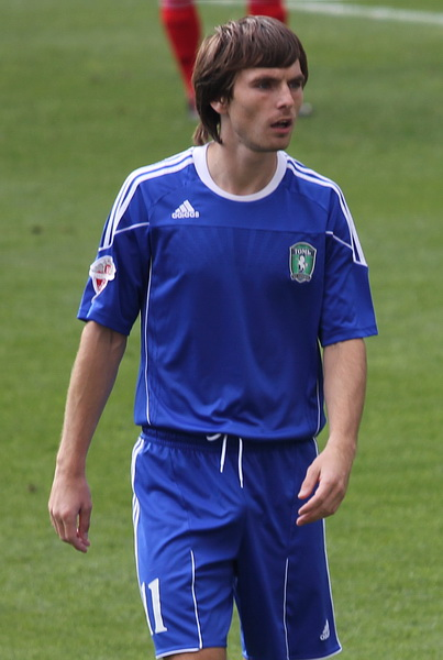 Kirill Kovalchuk